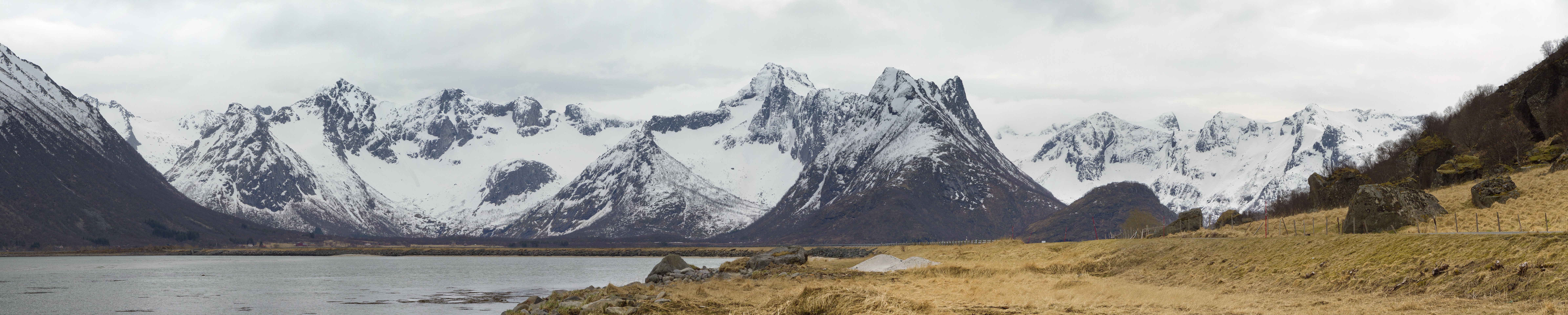 Mountains to the south from Grunnførfjoden on island Austvågøya, Lofoten, Nordland, Norway in 2015 April.